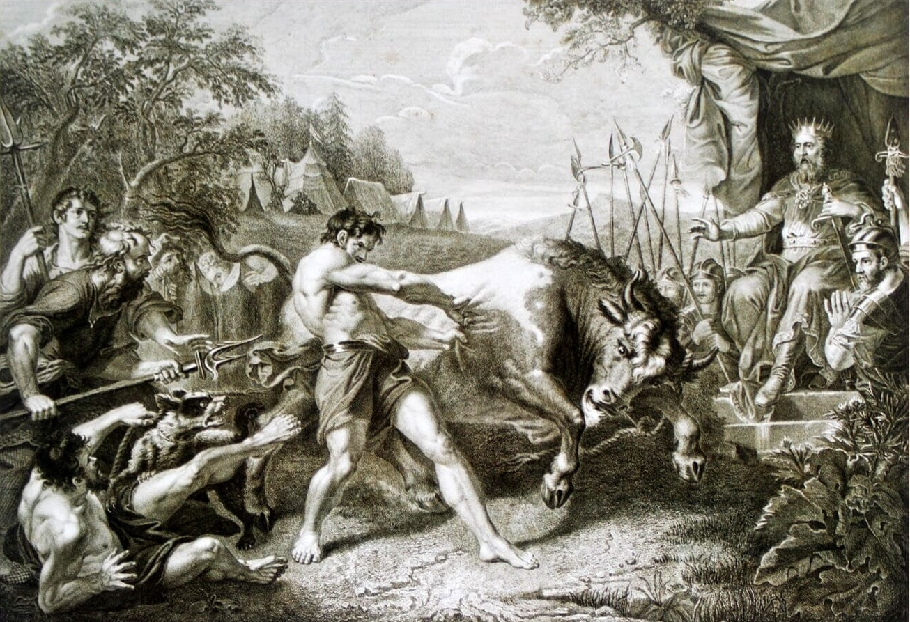 The Trial of Strength of Yan Usmar (engraving by Ivan Pozhalostin, 1880, after painting by Grigory Ugryomov)